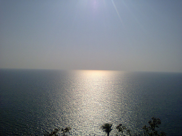 Photo of Patgaon Dam